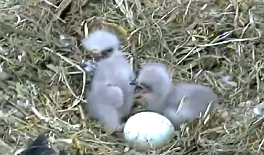 Screenshot from Ustream.tv of the Decorah bald eaglets, 2011